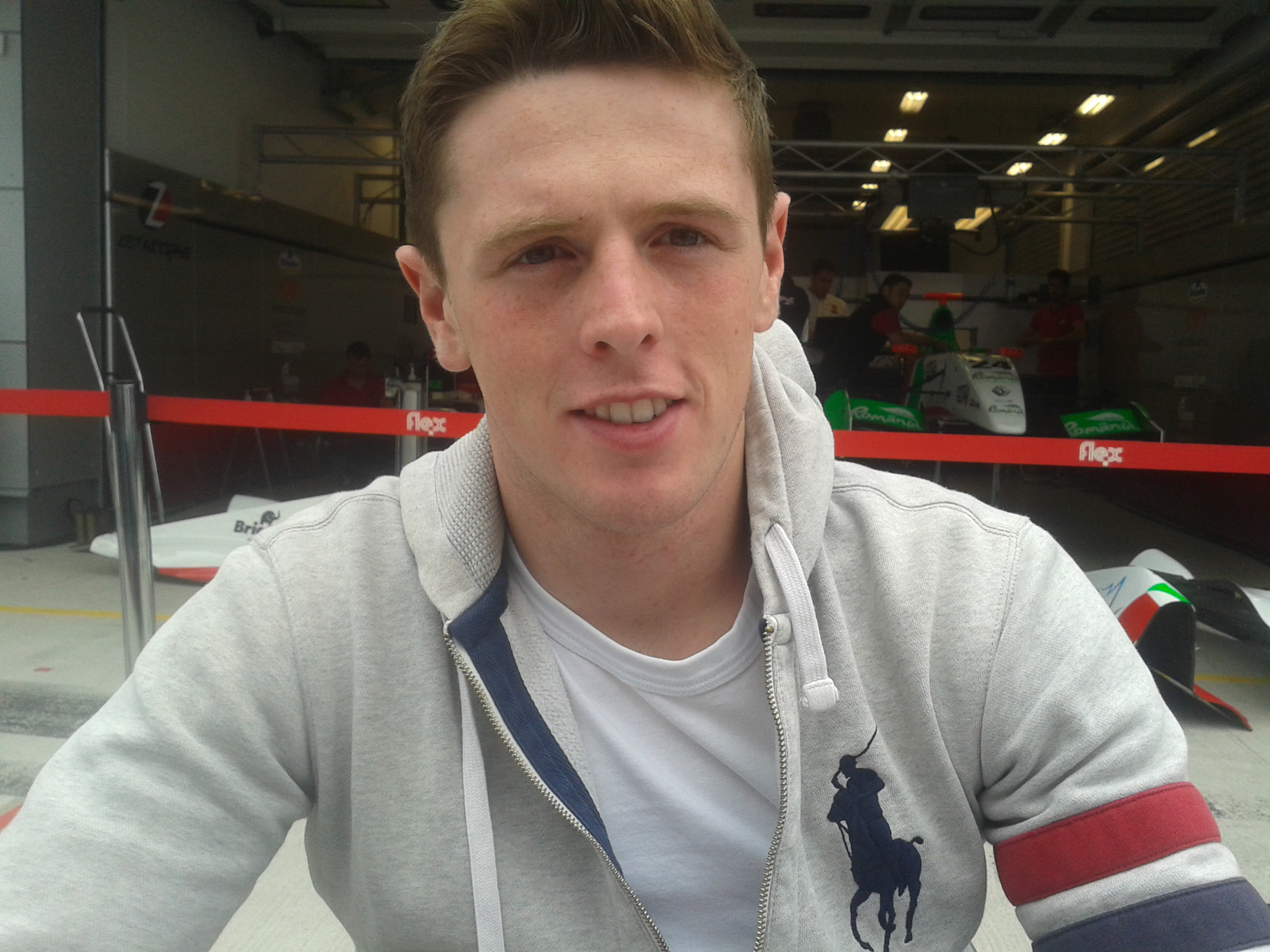 William Buller at Moscow Raceway, 22 June 2013